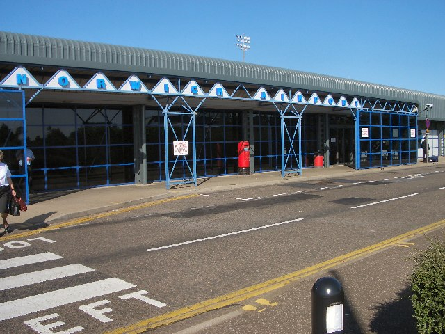 Norwich Airport. A quiet evening!